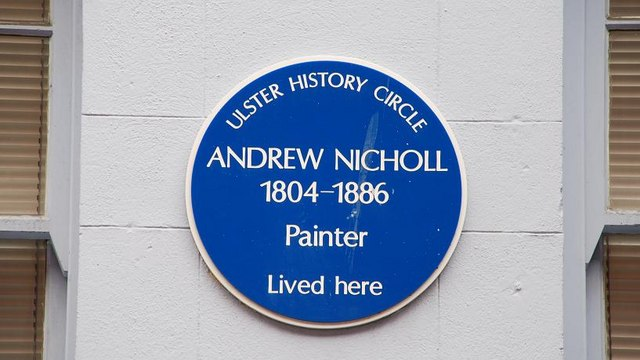 Plaque, Church Lane, Belfast This plaque commemorates the painter Andrew Nicholl.